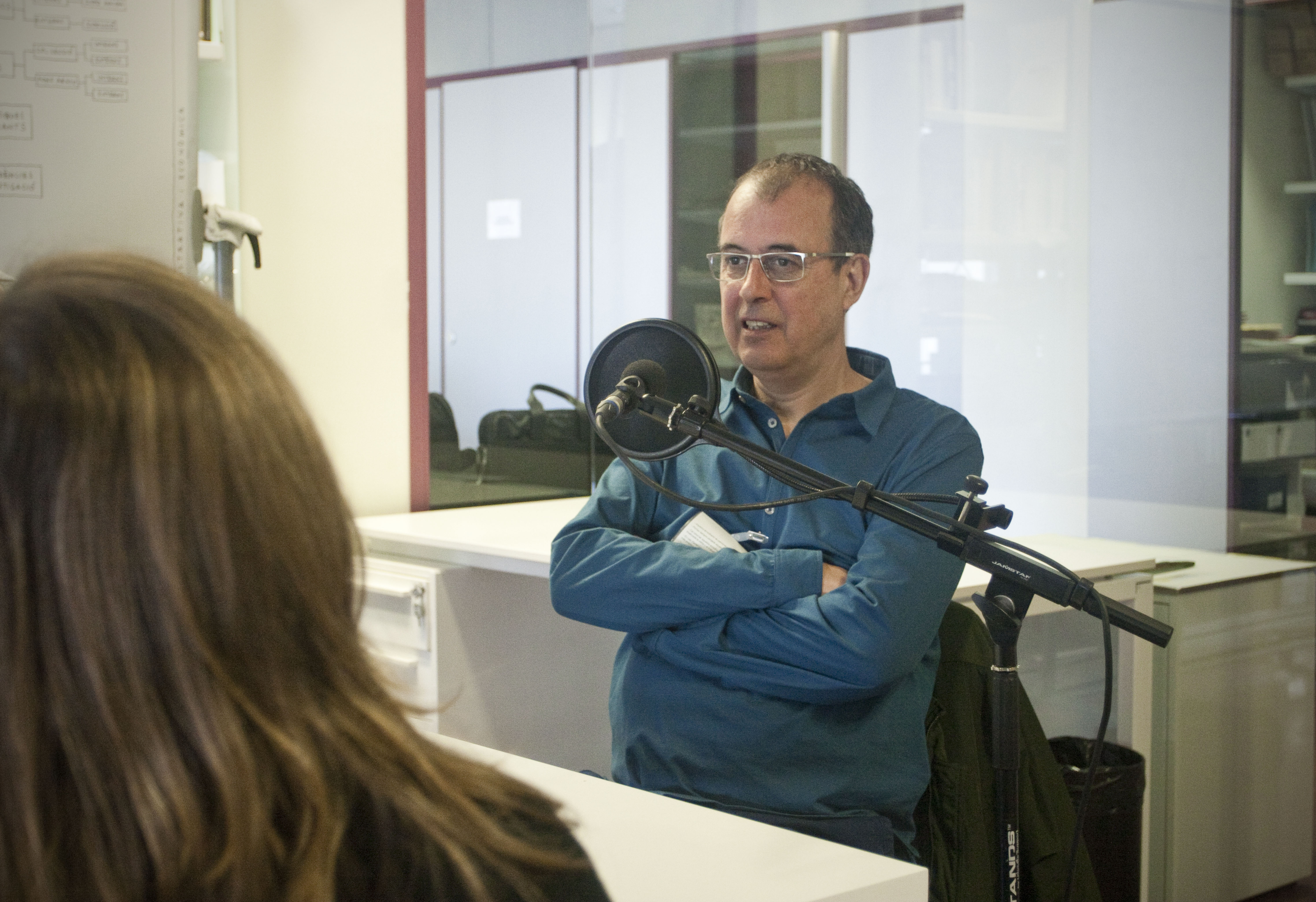 rwm.macba.cat/ca/fons_audio_tag Foto: Gemma Planell / MACBA, 2013